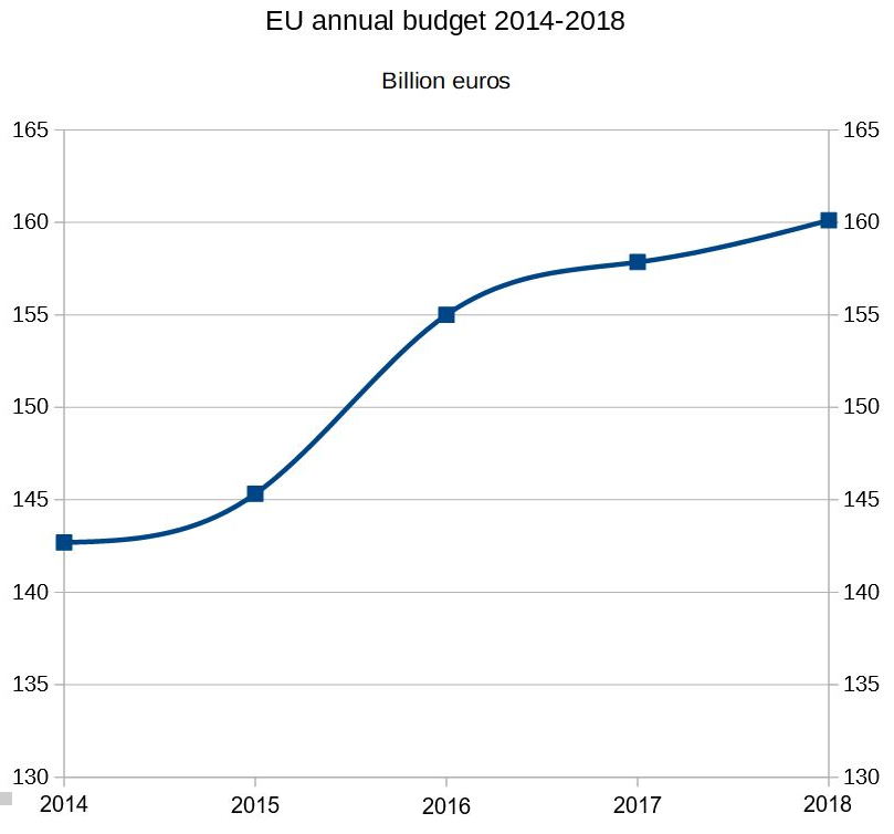 EU annual budget. 142.69 billion in 2014, 145.32 billion in 2015, 155 billion in 2016, 157.85 billion in 2017, 160.1 billion in 2018